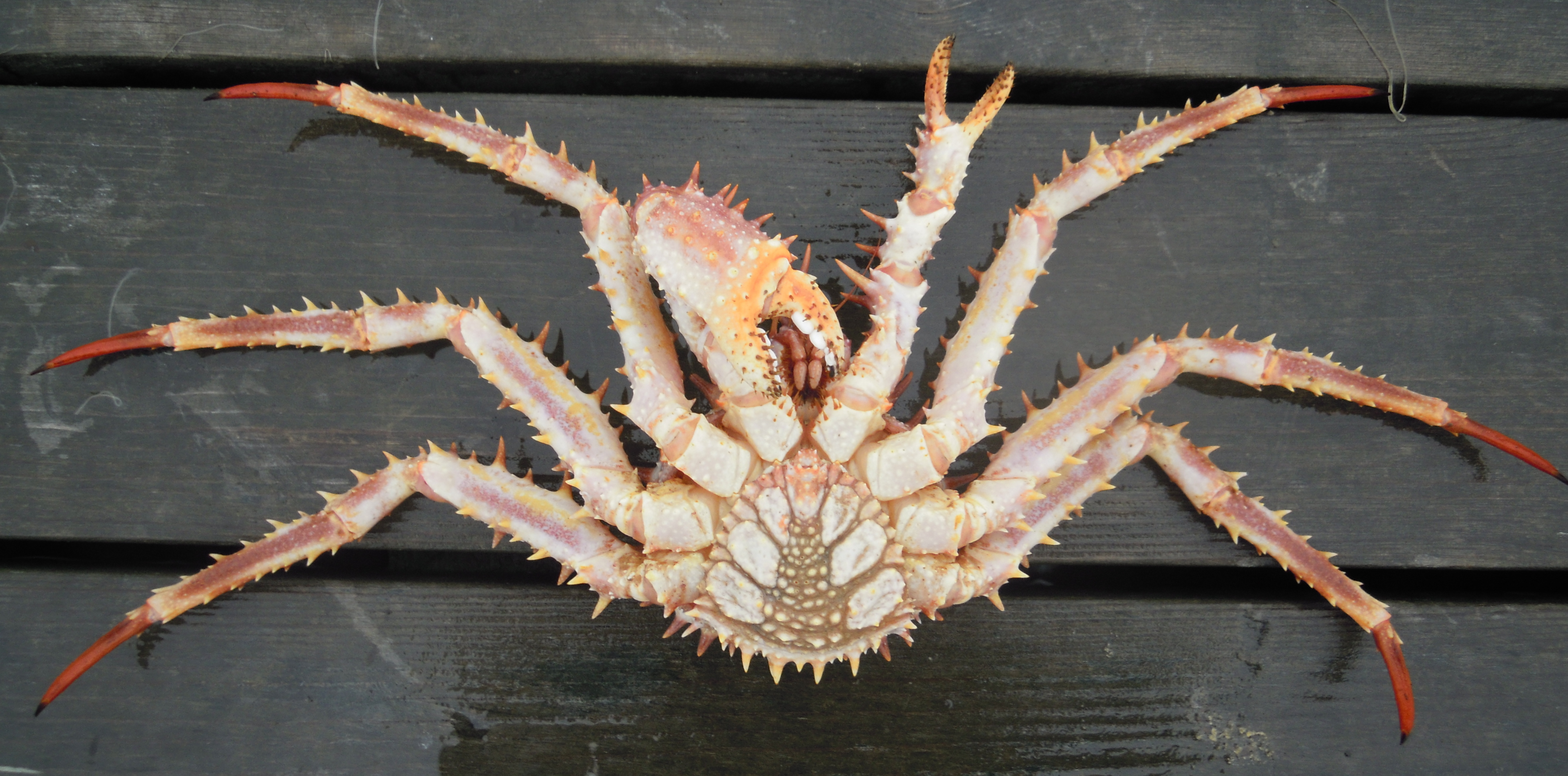 Lithodes maja - a species of Lithodes maja. Stavern, Norway. Bottom up. You are free to use this picture outside Wikipedia (see license), as long as you write: Photo: Arnstein Rønning